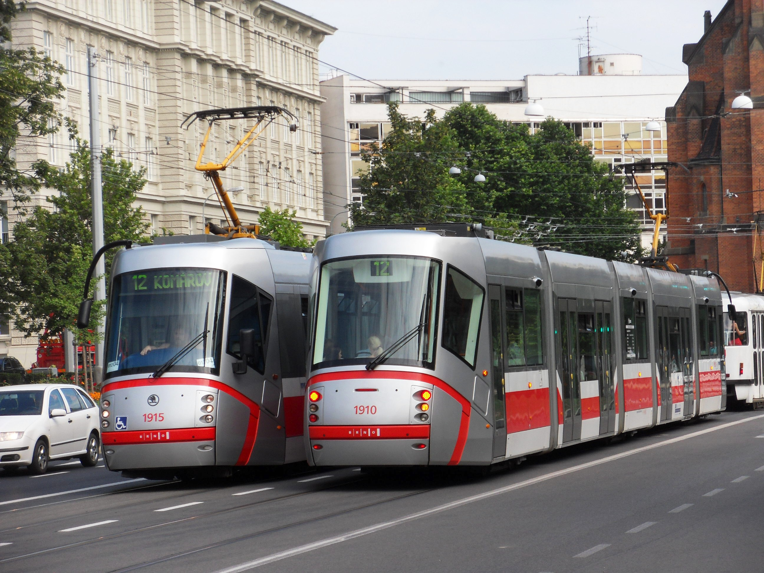 Škoda 13T trams No. 1915 and 1910 of Dopravní podnik města Brna, Brno, Czech Republic